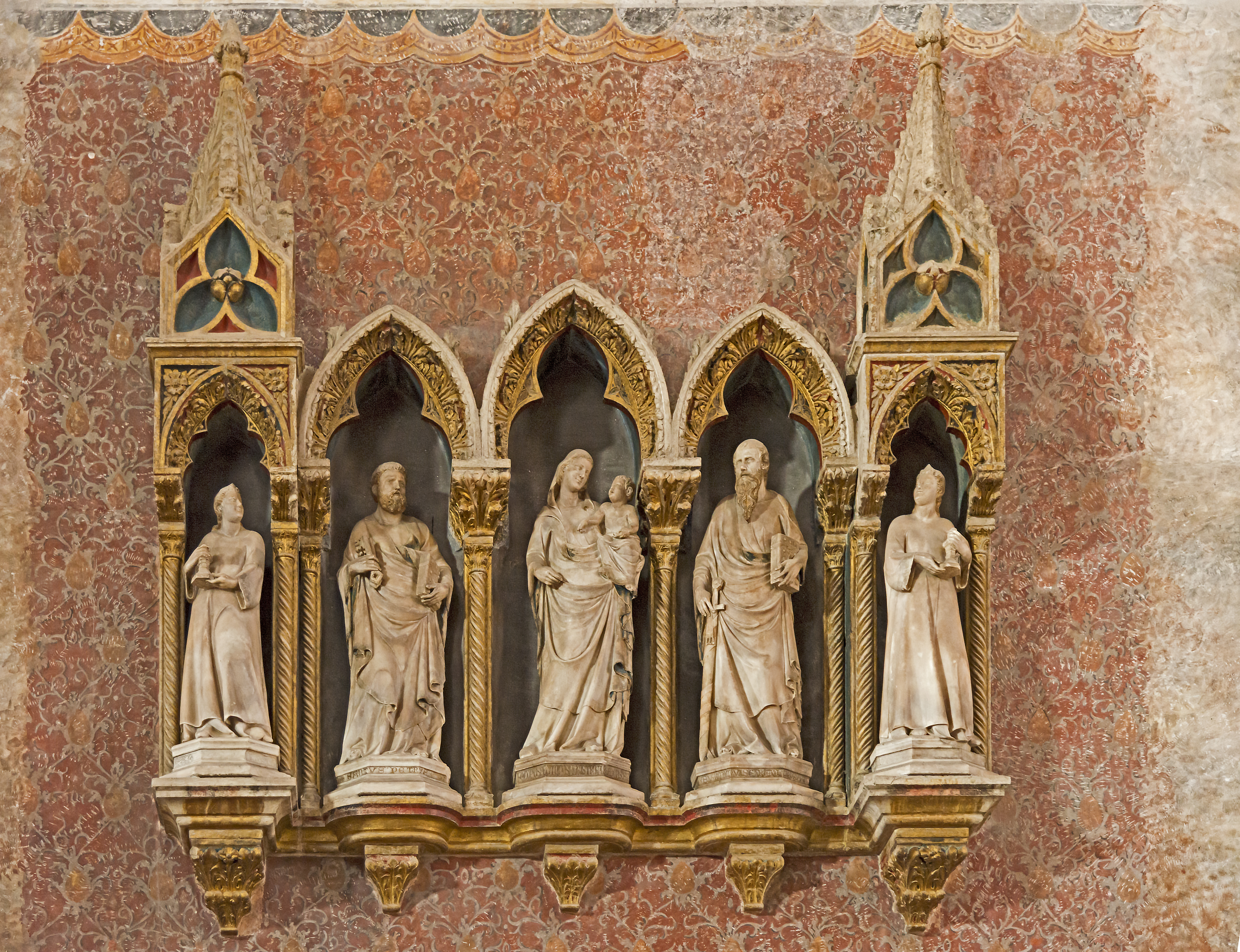 Choir of Santi Giovanni e Paolo in Venice. Tomb of the Doge Marco Corner, above: Madonna and Child and other saints Nino Pisano.